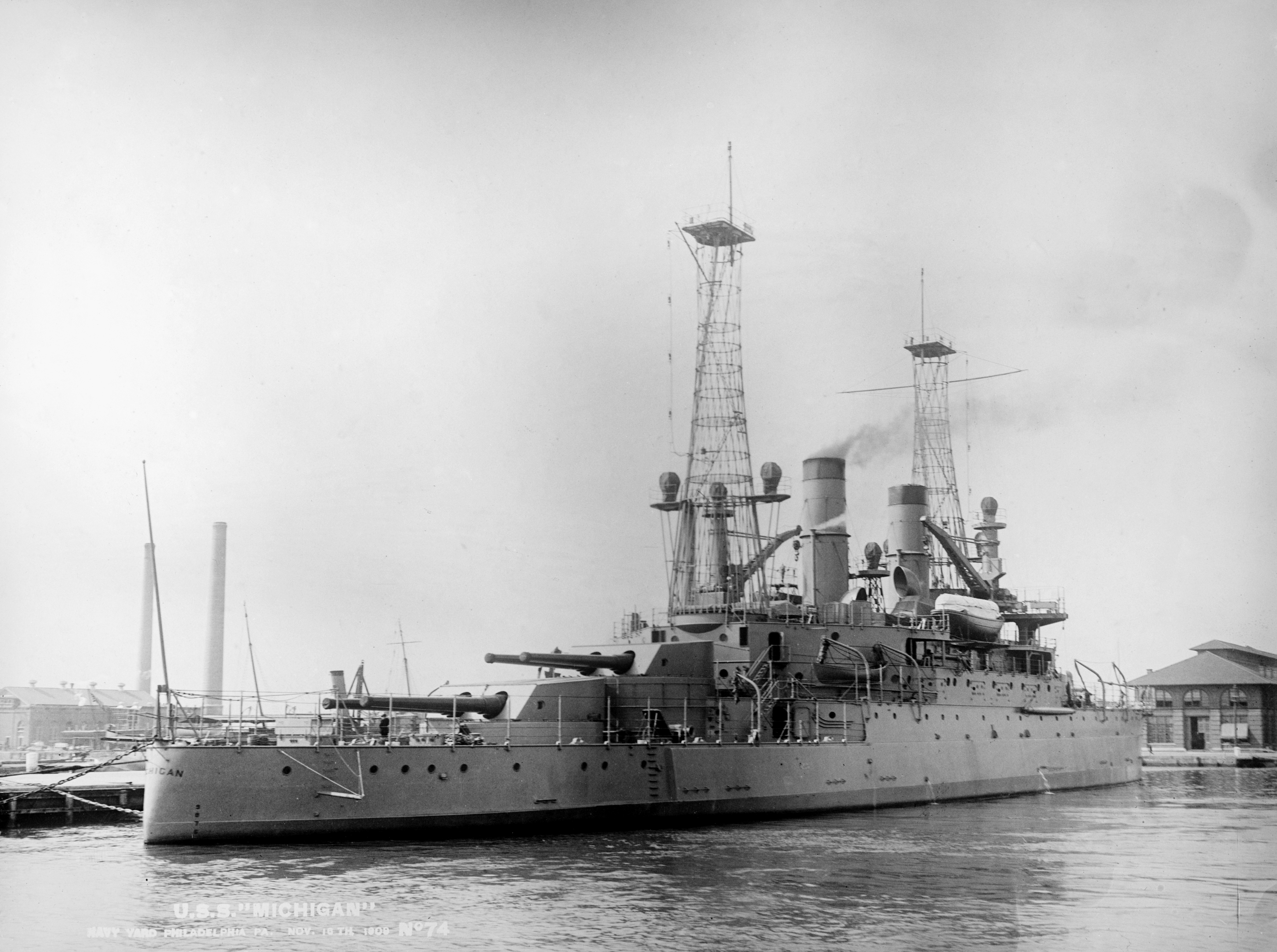 USS Michigan, Navy Yard, Philadelphia, Pa